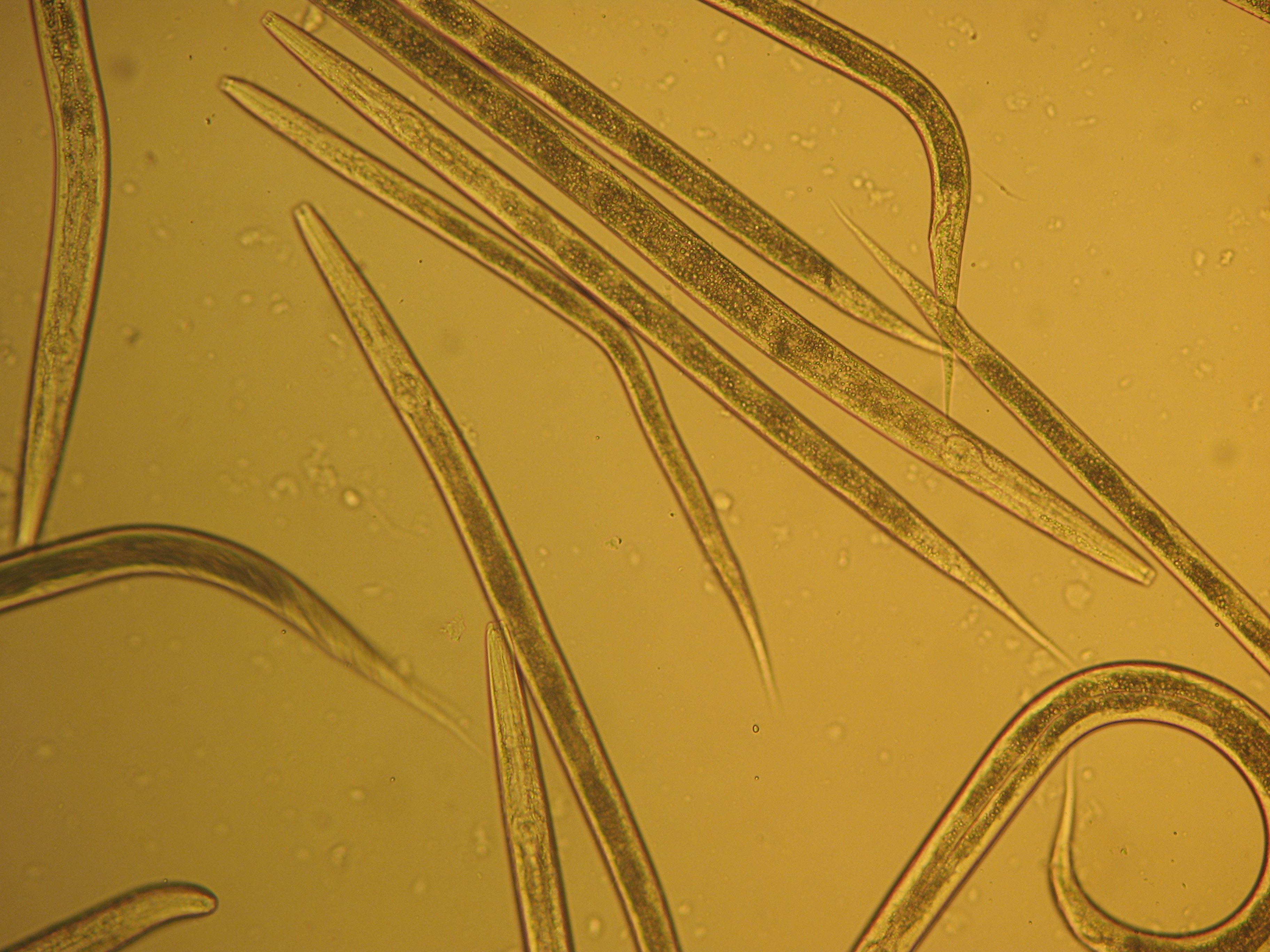 Panagrellus redivivus through Zeiss microscope.